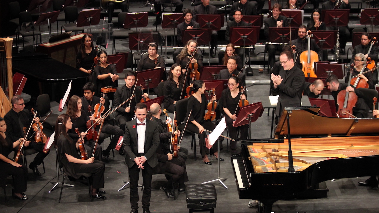 Pianist Giorgi Latso Sinfónica Nacional de Colombia /Colombian National Symphony Orchestra Bogota, Teatro Colón